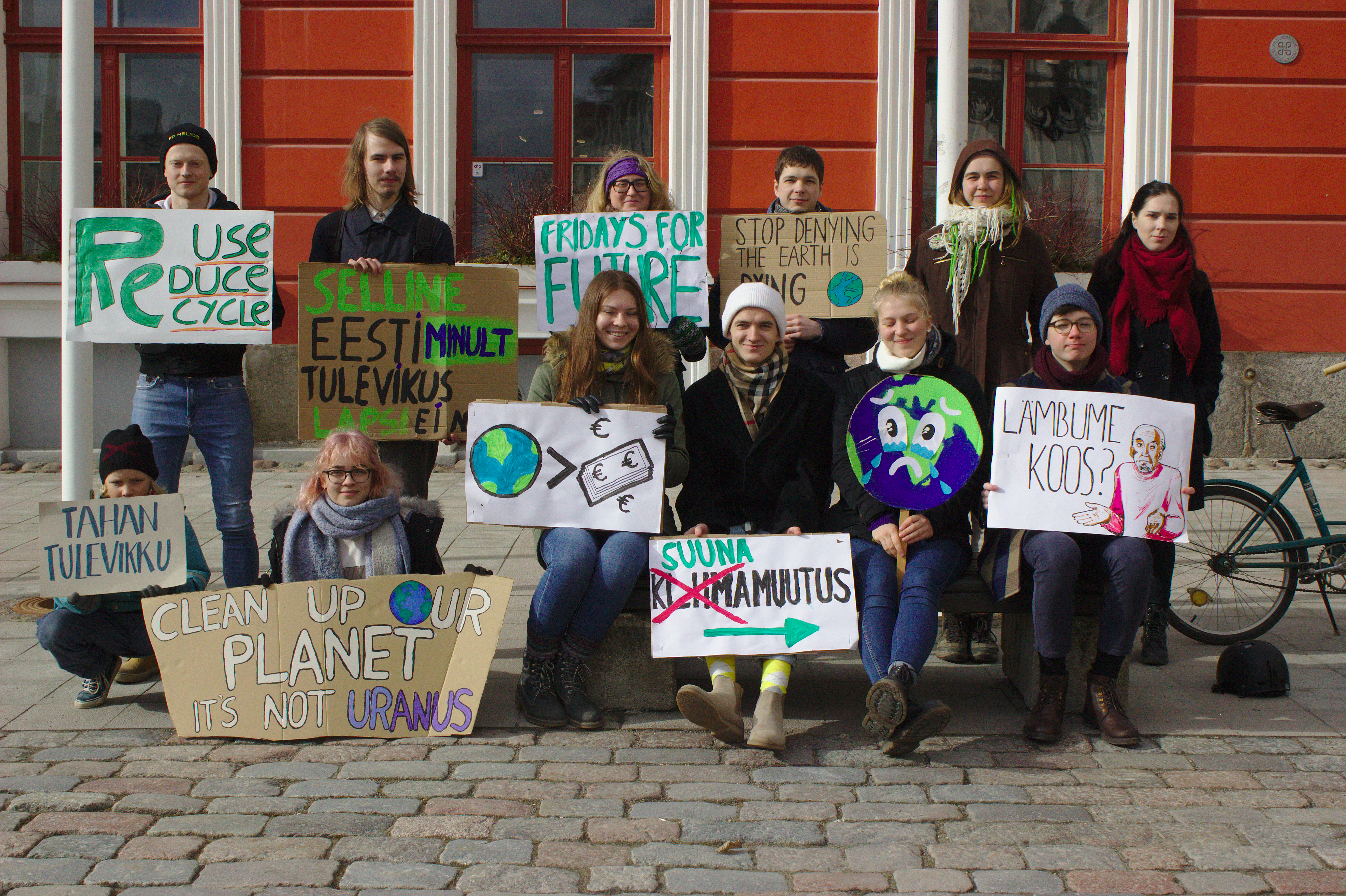 School strike for climate in Tartu, Estonia, Fridays For Future